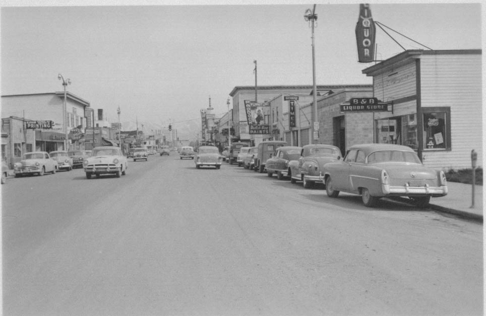 Anchorage, Alaska - 4th Avenue An early view of Anchorage, Alaska. This street scene of 4th Avenue shows the "downtown" area during the early 1950's. FWS keywords: Urban environments, History' ARLIS, Alaska U.S. Fish and Wildlife Service FWS states this image is in the public domain